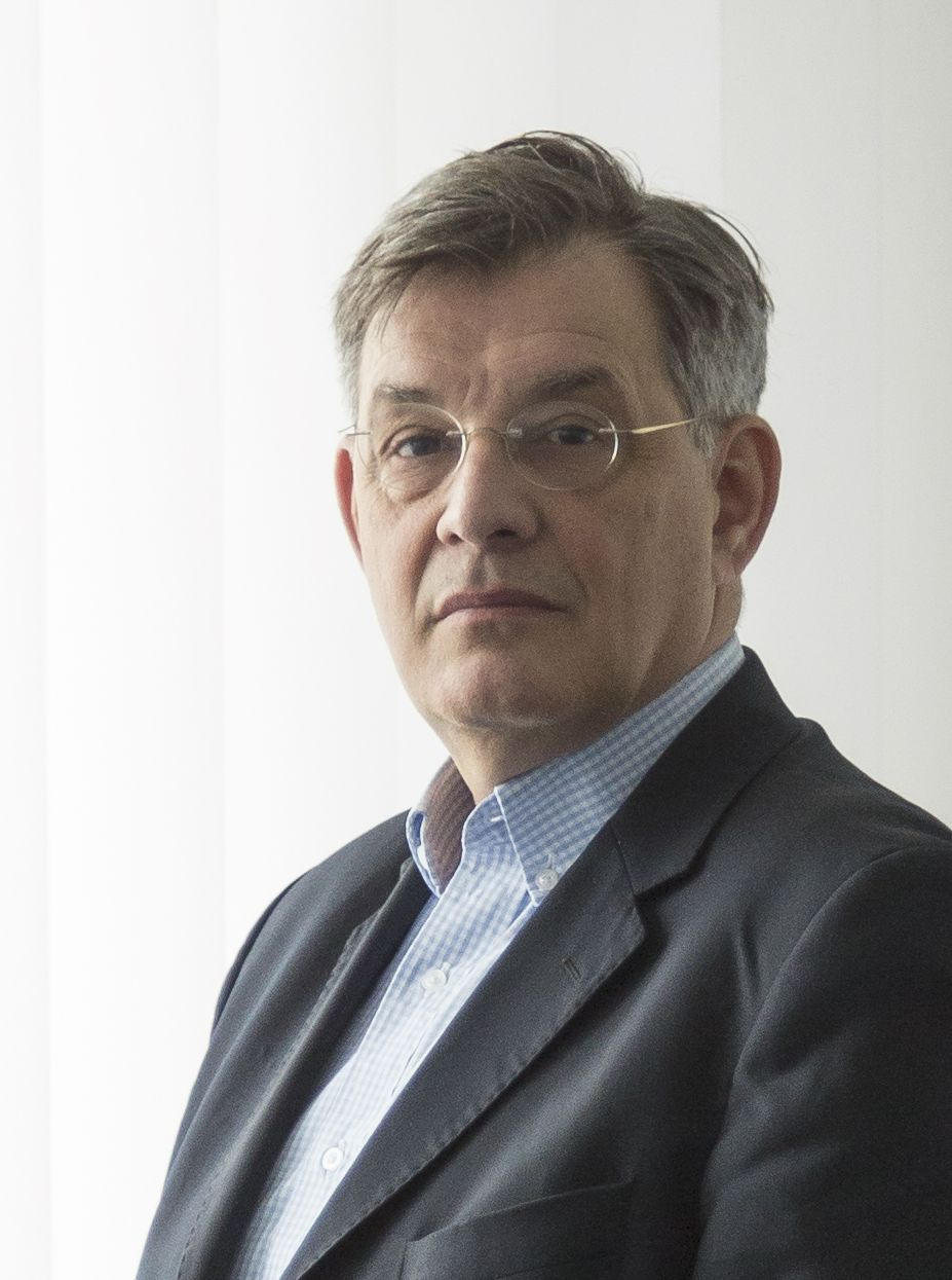 Prof. Dr. F. J. Schweigert